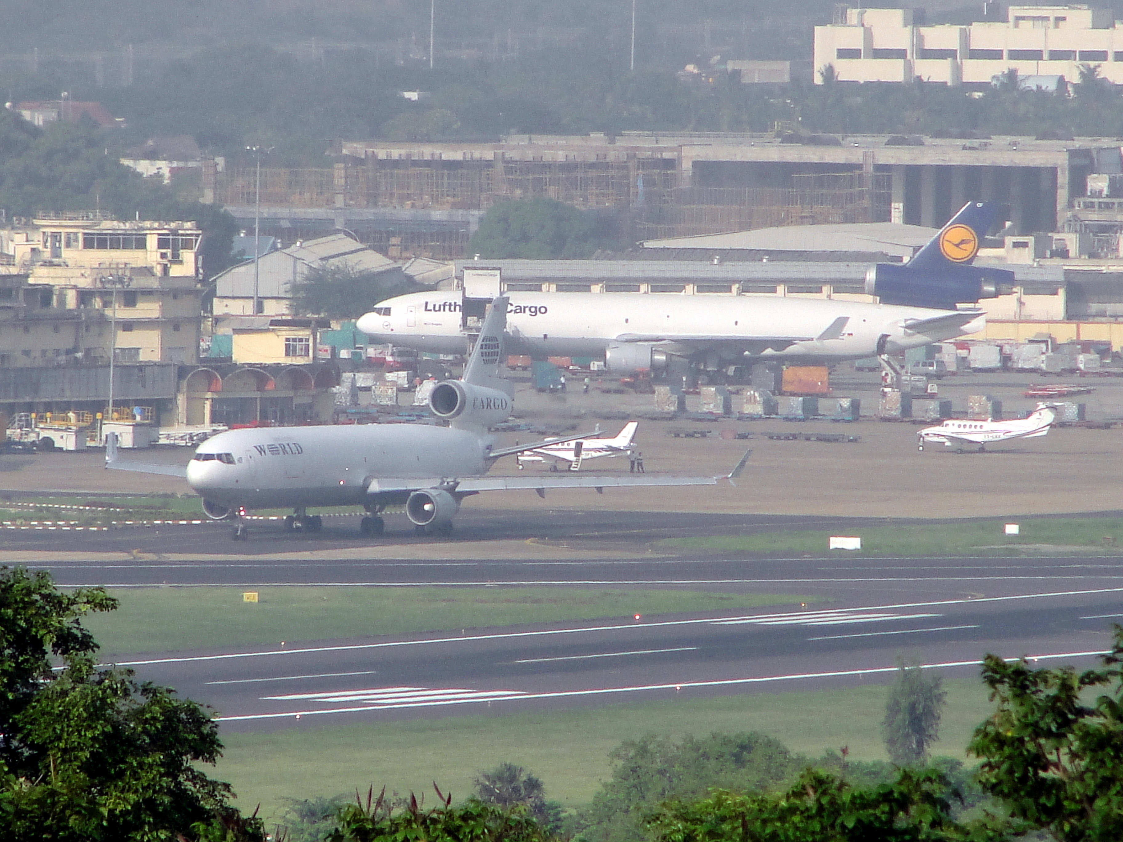 Two MD-11Fs of World Airways Cargo and Lufthansa Cargo at Chennai Airport.